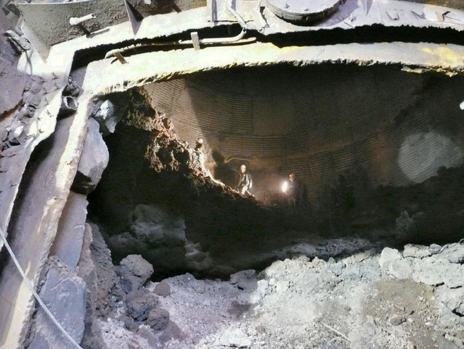 After torch-cutting an "access door" at the tap hole, some technicians enter the blast furnace shaft, to make its assessment. Image taken just before the last hearth relining of the blast furnace HF6 of Seraing, end 2007.